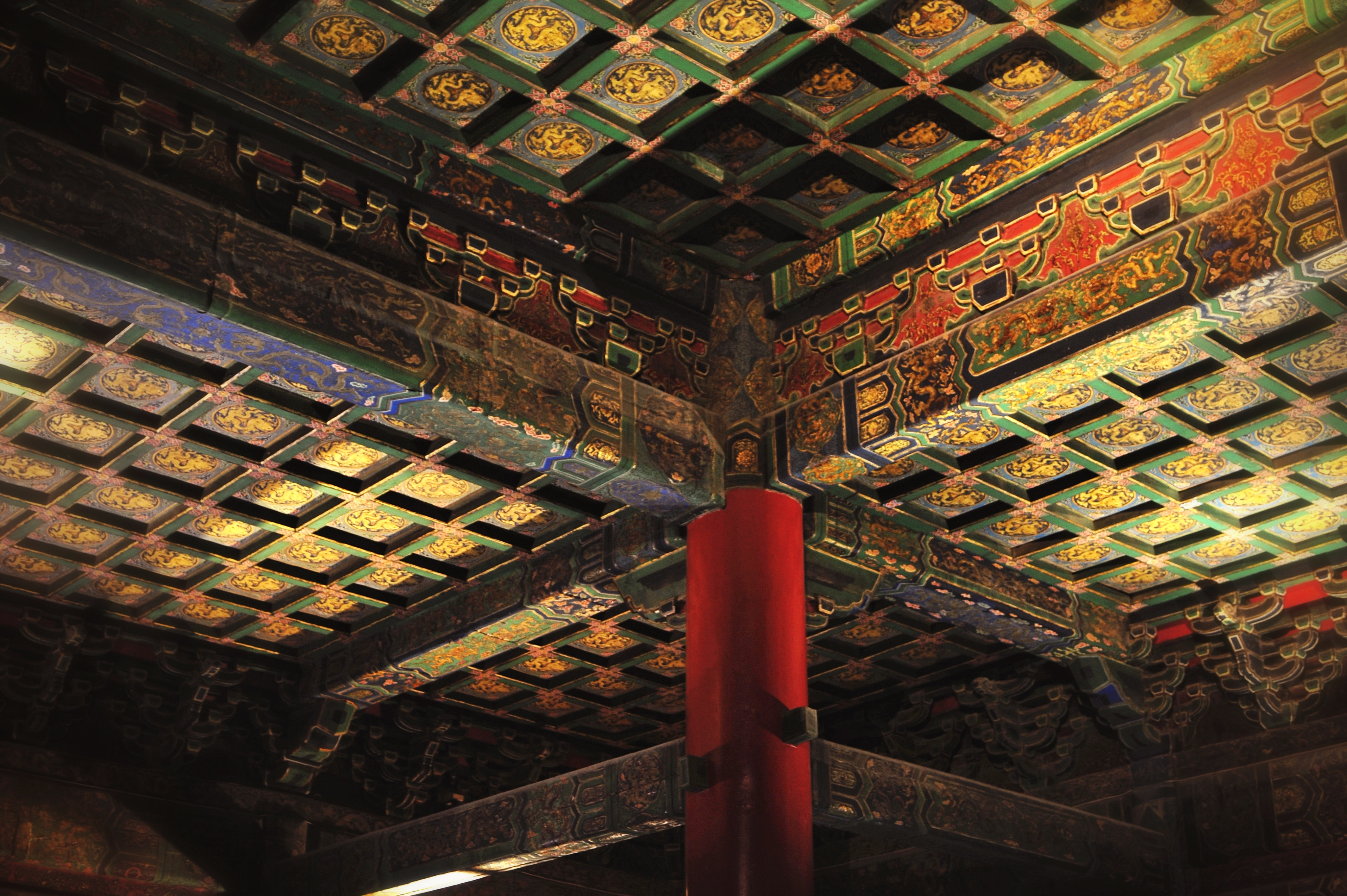 Interior of the Palace Museum (Forbidden City) in Beijing, China. Close-up on the ceiling.